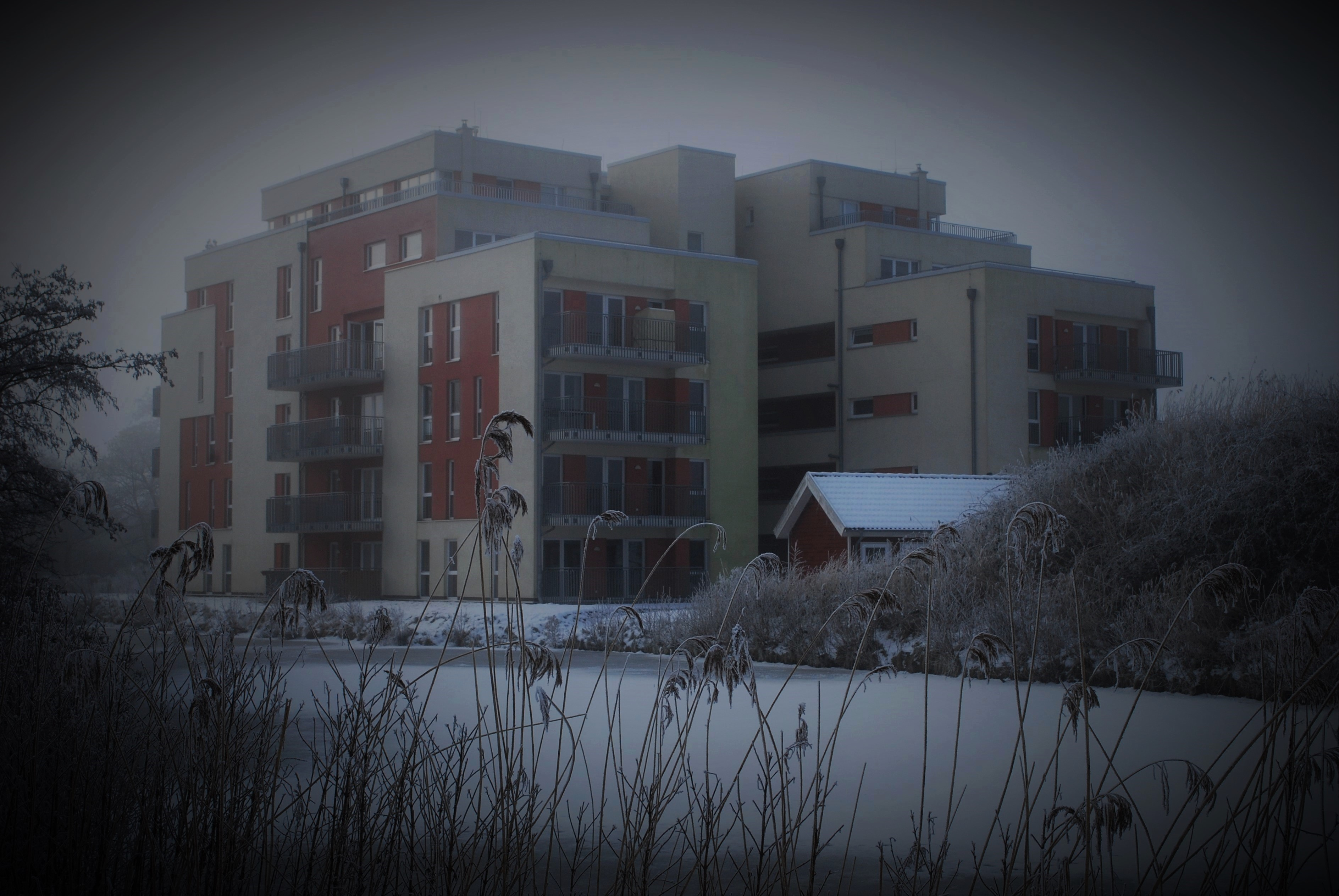 Schillig is a village in the Friesland district of Lower Saxony in Germany. It is situated on the west coast of Jade Bay and is 20 km (12 mi) north of the town of Wilhelmshaven.